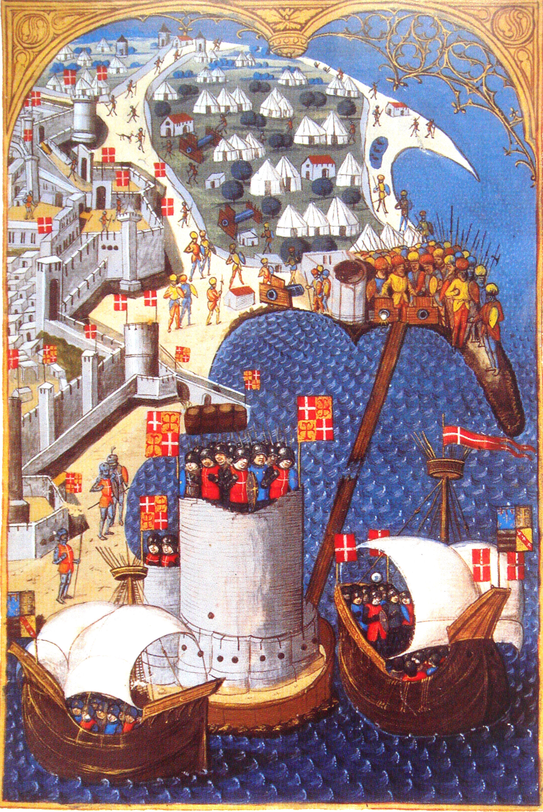 Siege of Rhodes in 1480. Two Neapolitan ships bring reinforcements